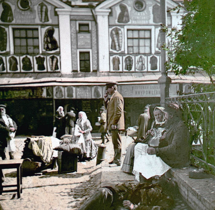 At the market ("Novo-Alexandrovsky Market") in St.-Petersburg